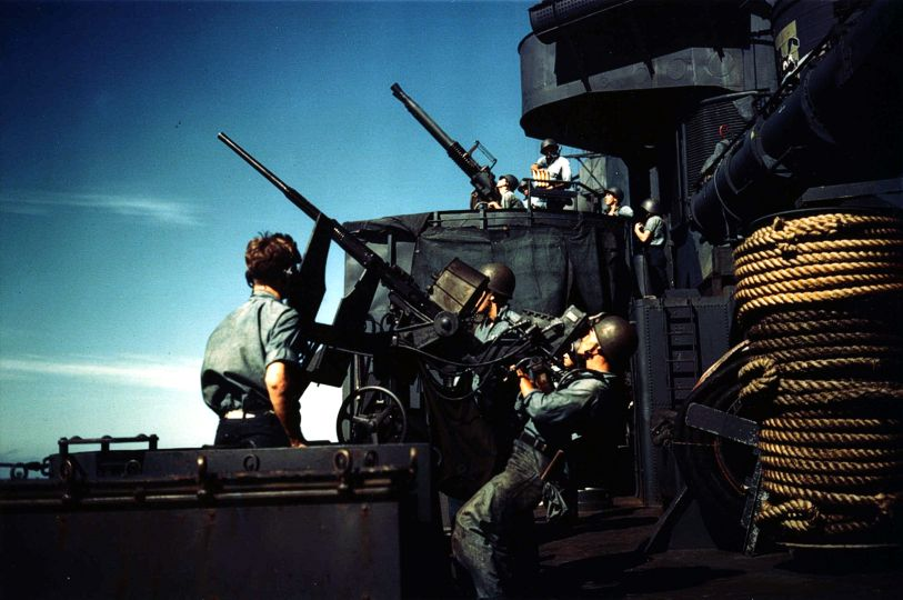 20 mm and 40 mm anti-aircraft guns on USS Halford (DD-480).